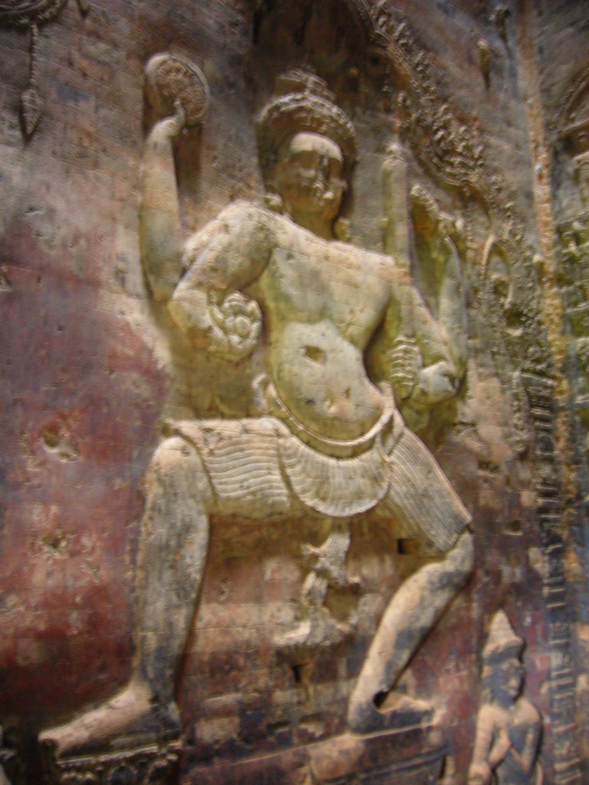 Vishnu